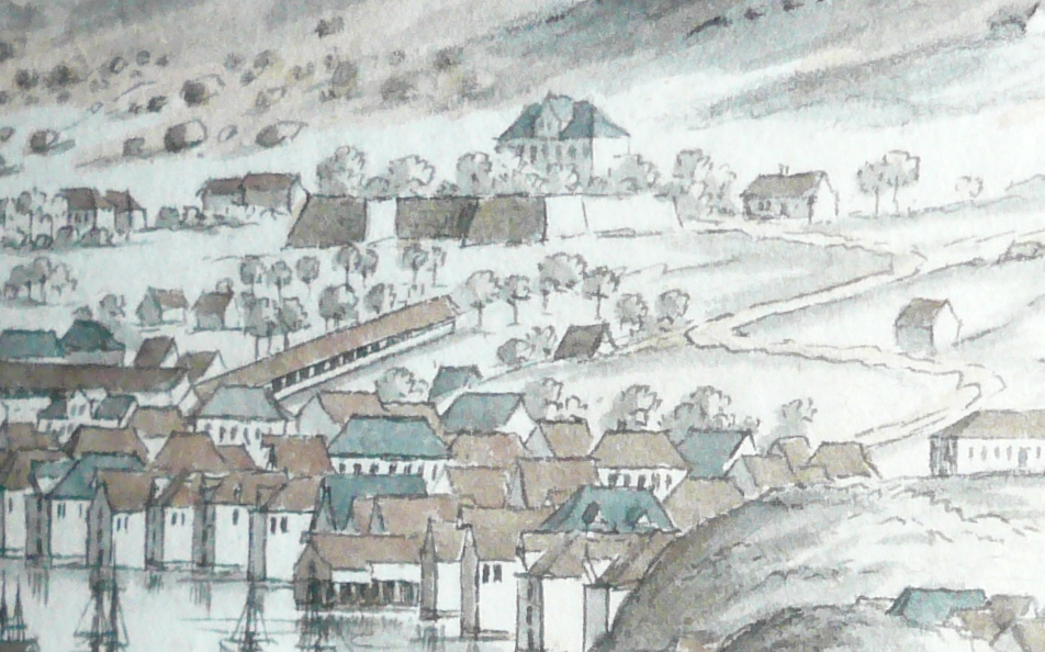 Detail from Johan F. L. Dreiers Prospekt of Bergen, 1815